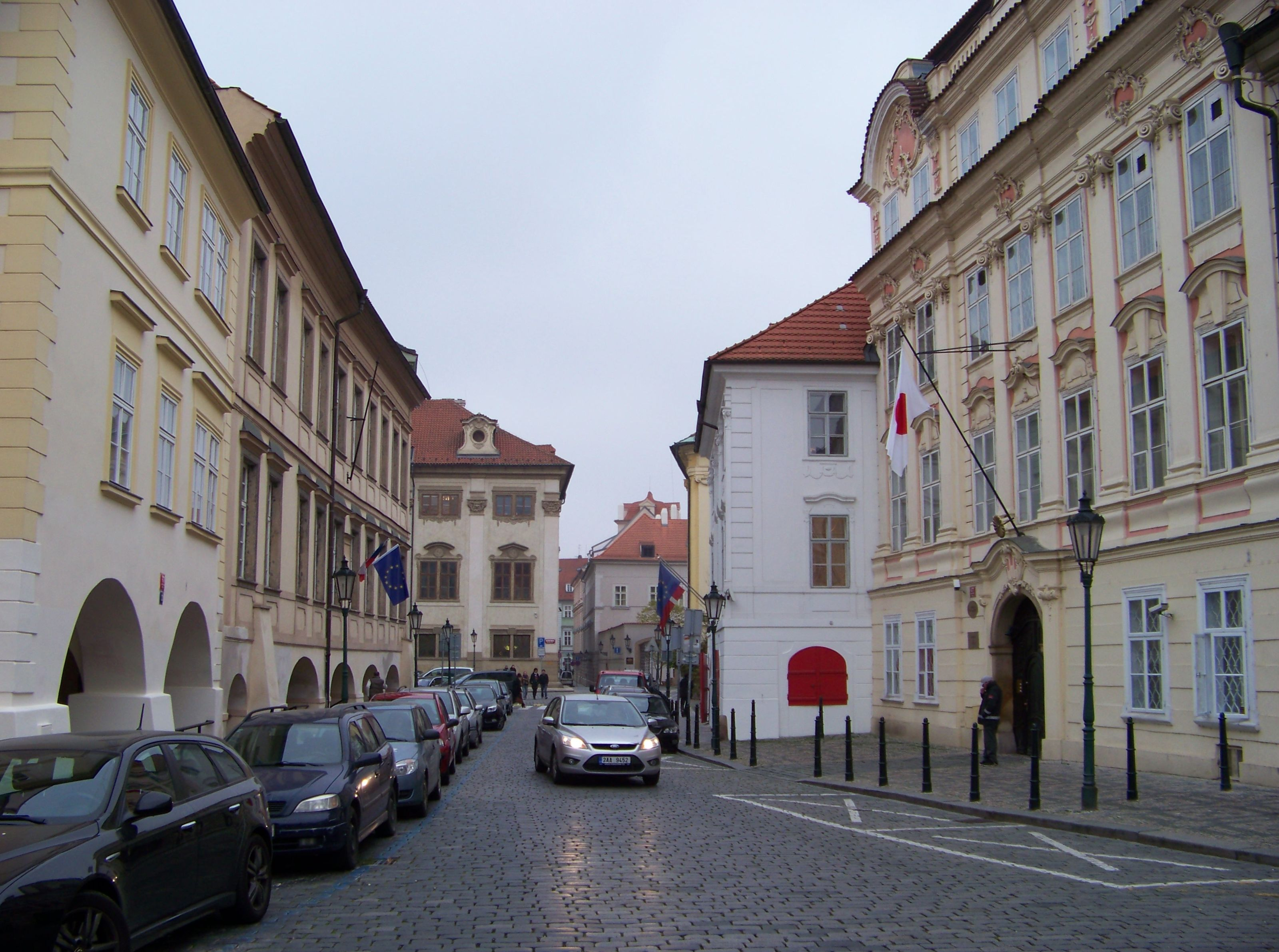 Prague-Malá Strana, the Czech Republic. Maltézské Square.